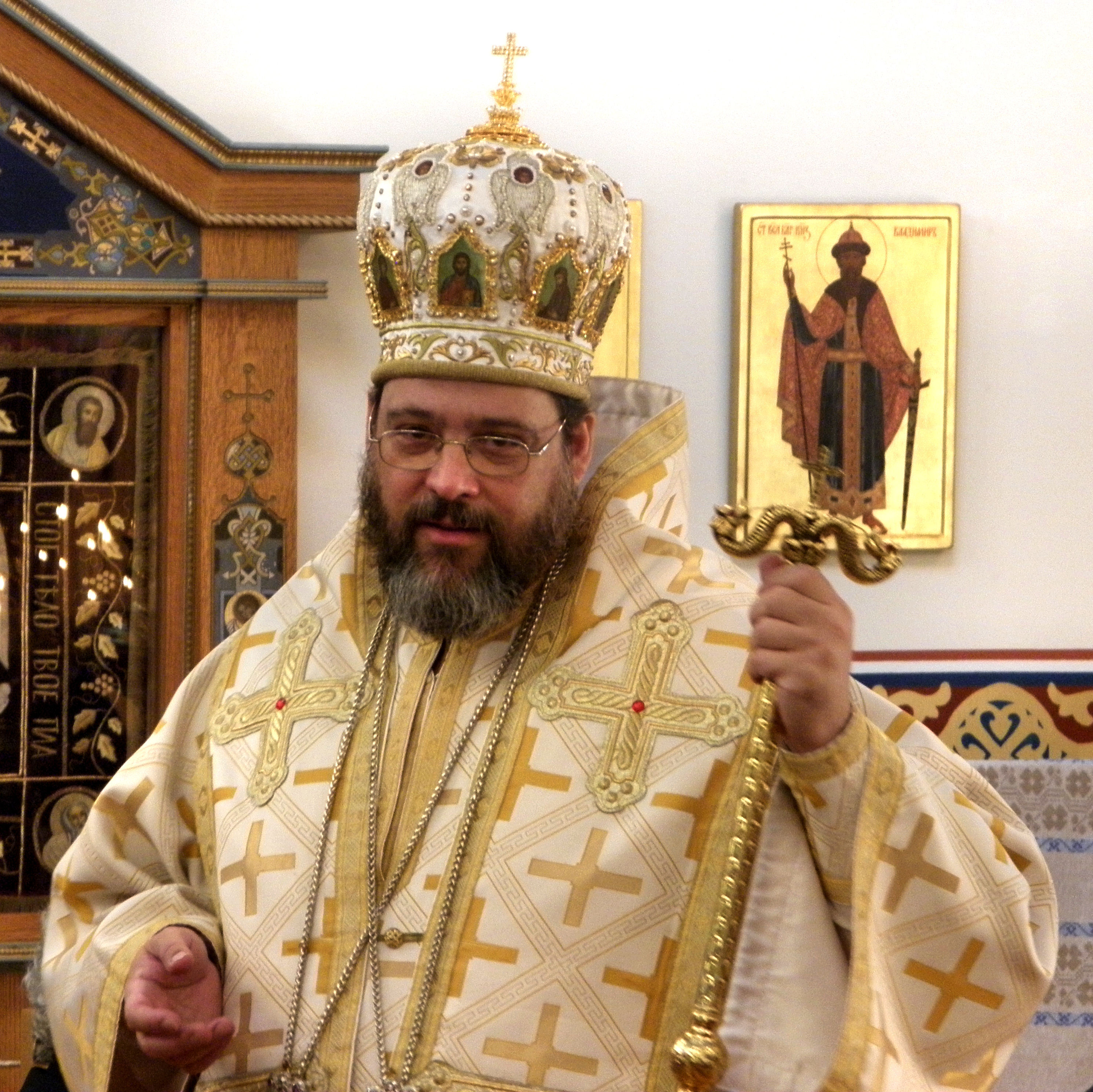 His Grace Bishop Gregory (Tatsis) of Nyssa, ruling bishop of the American Carpatho-Russian Orthodox Diocese (ACROD), (2012-present).Picture taken on Sunday September 8th, 2013, during Bishop Gregory's first visit to Christ the Saviour Orthodox Sobor, Ottawa, Ontario, Canada.